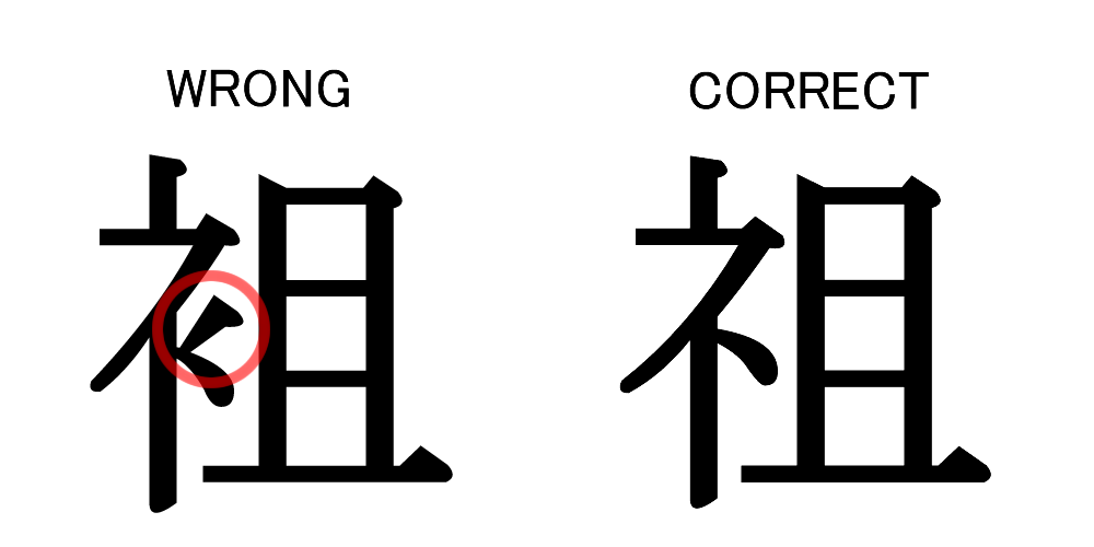 An explaining image for meta:Talk:Errors in the Wikipedia logo •wrong?:袓(radical 145衣/衤+ 且, 6 + 5 strokes, U+8893) •correct:祖(radical 113示/礻+ 且, 5 + 5 strokes, U+7956) Some Wikipedia logos use the character 維 (radical 120 糸 + 隹, 6 + 8 strokes, U+7DAD) (The character 糸 may be simplified to 糹 or 纟) See also 维基百科 and 维基百科